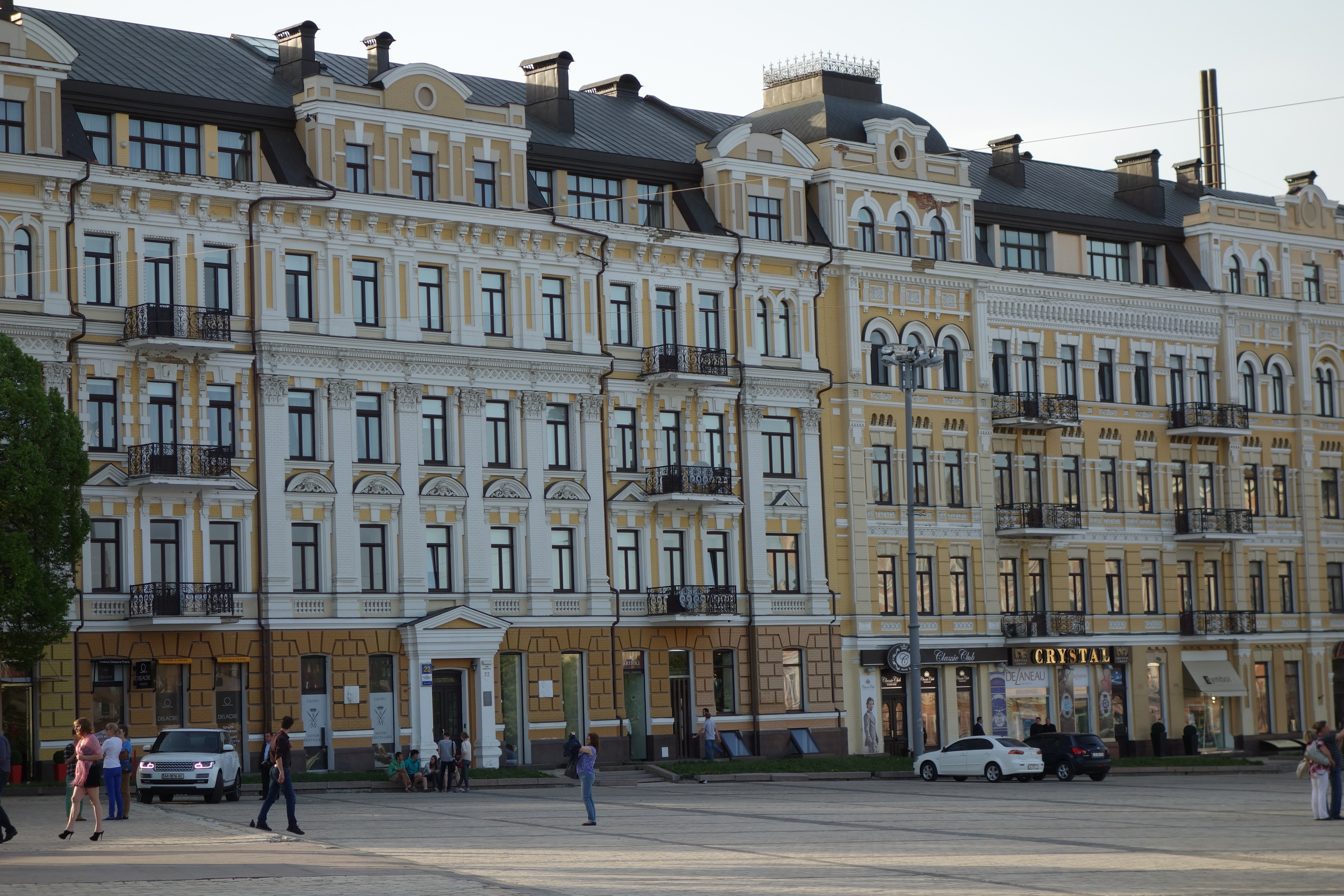 This is a modern photograph of a building located at Volodymyrska Street 22, Kyiv, Ukraine.